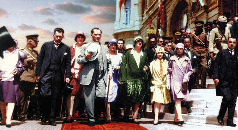 K. Ozalp and K. Ataturk in one for their many tours, this image dates back to the Ataturk era in the 20s